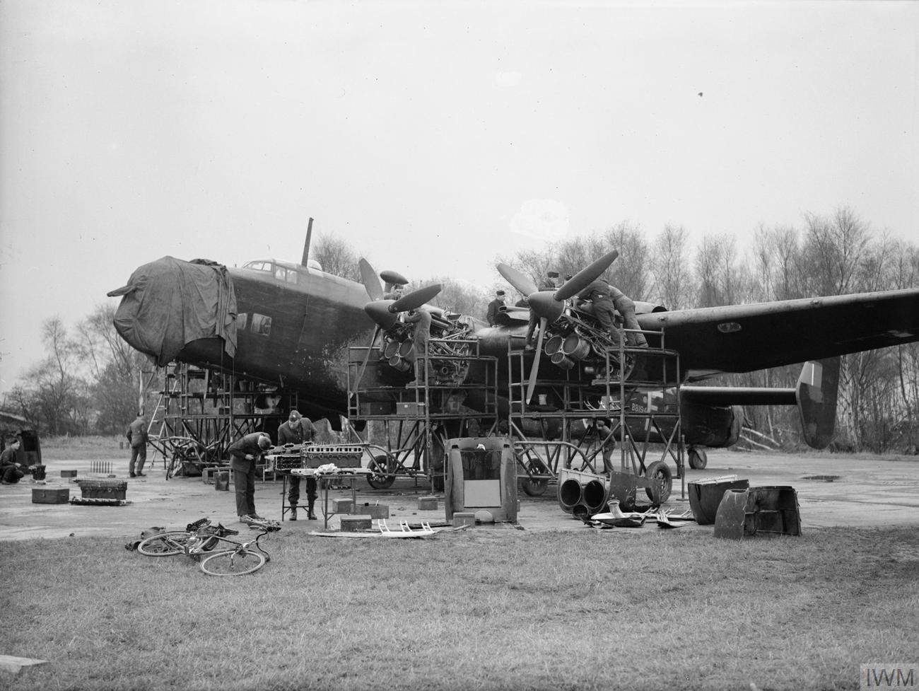 Royal Air Force Bomber Command, 1942-1945. Ground crews overhaul the Rolls-Royce Merlin XX engines of Handley Page Halifax Mark II, BB194 'ZA-E', of No. 10 Squadron RAF, in a dispersal at Melbourne, Yorkshire.